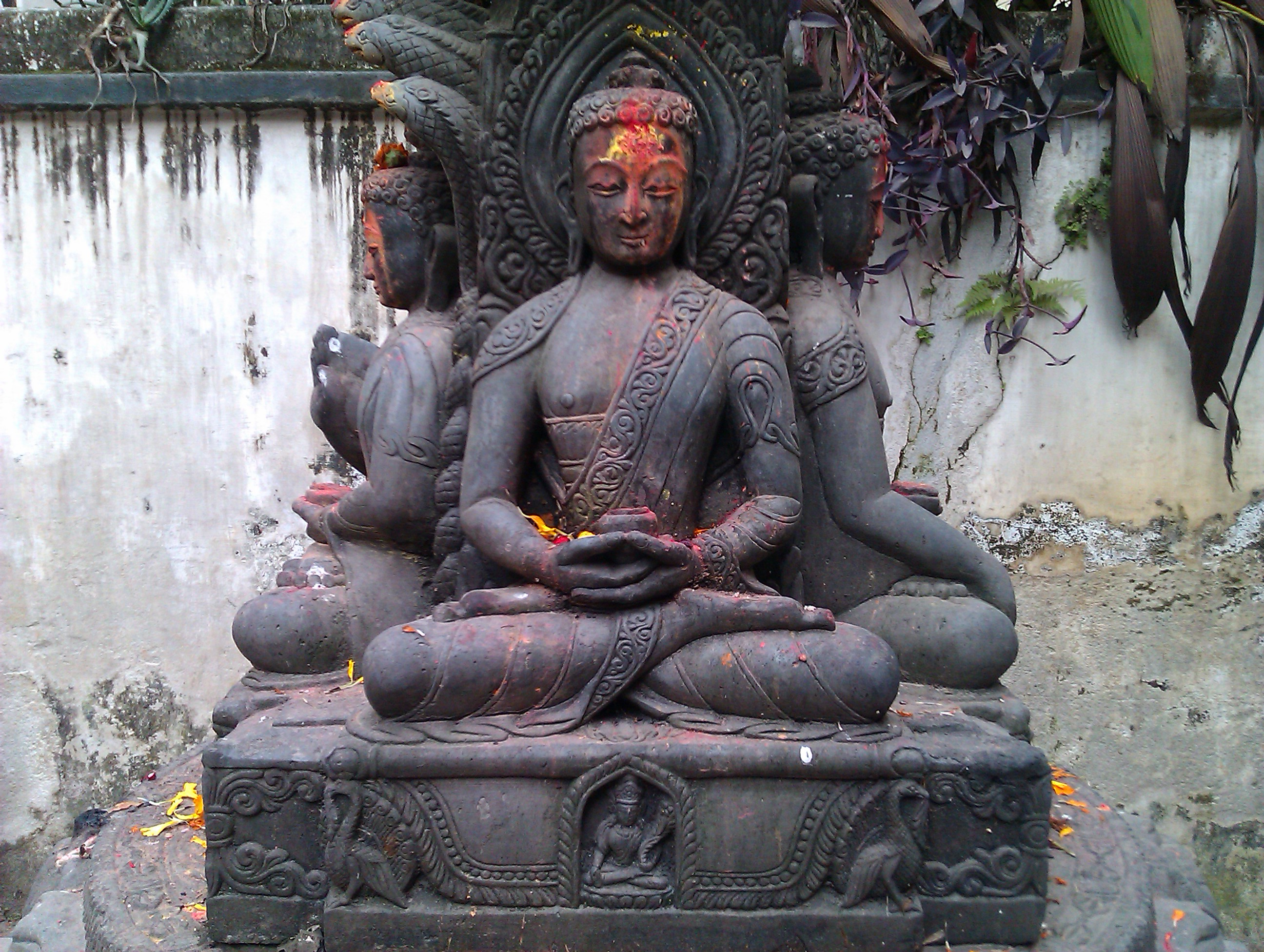 Close view of Chaitya at Bakunani